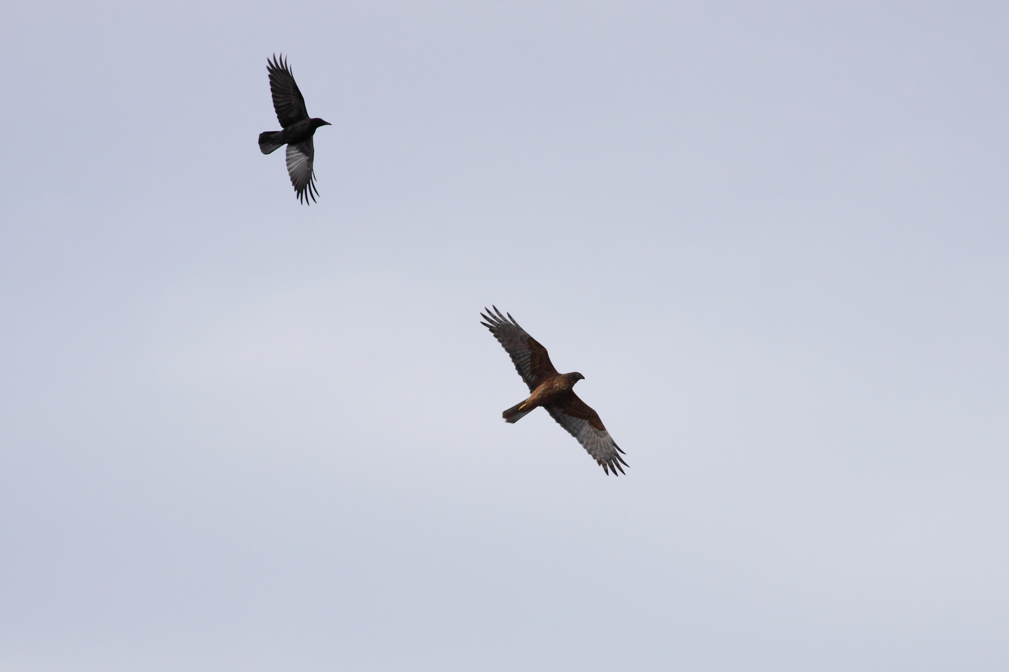 Little Raven, Corvus mellori, mobbing a Swamp Harrier, Circus approximans, Winter's Swamp, Ballarat, Victoria, Australia.